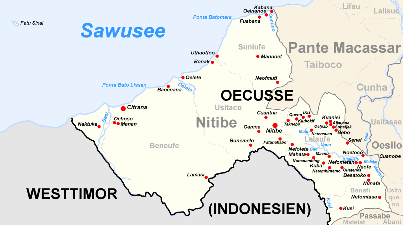 subdistrict of Nitibe, district Oecusse, East Timor